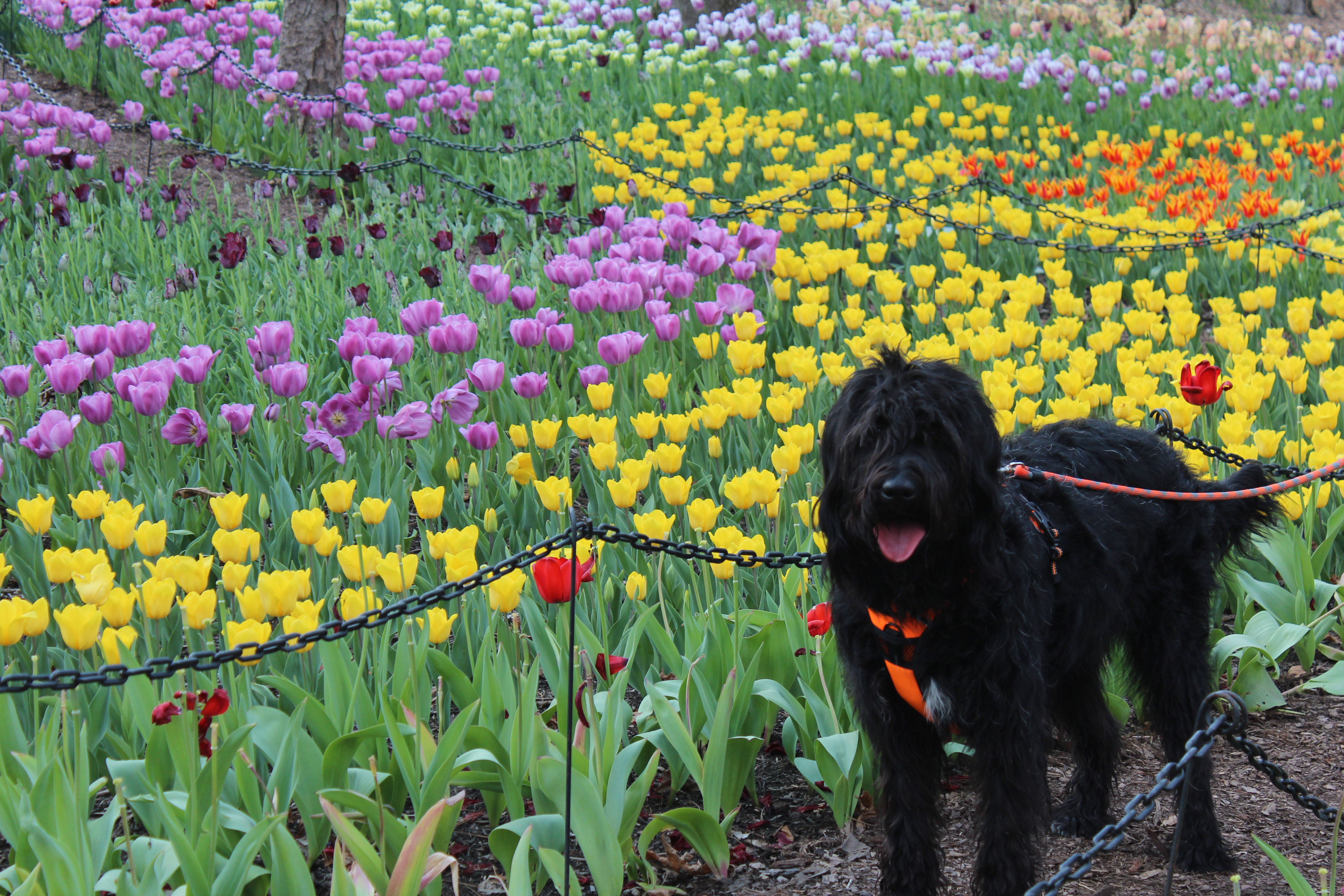 Labradoodle among Tulips